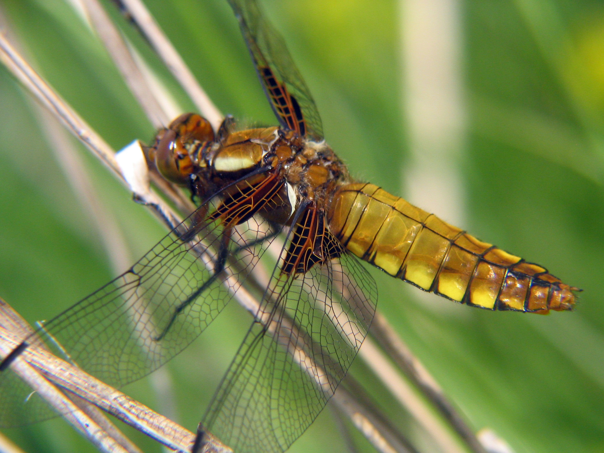 a female Libellula depressa, a dragonfly photographed in southern Romania, hilly area, found in a clearing near a river